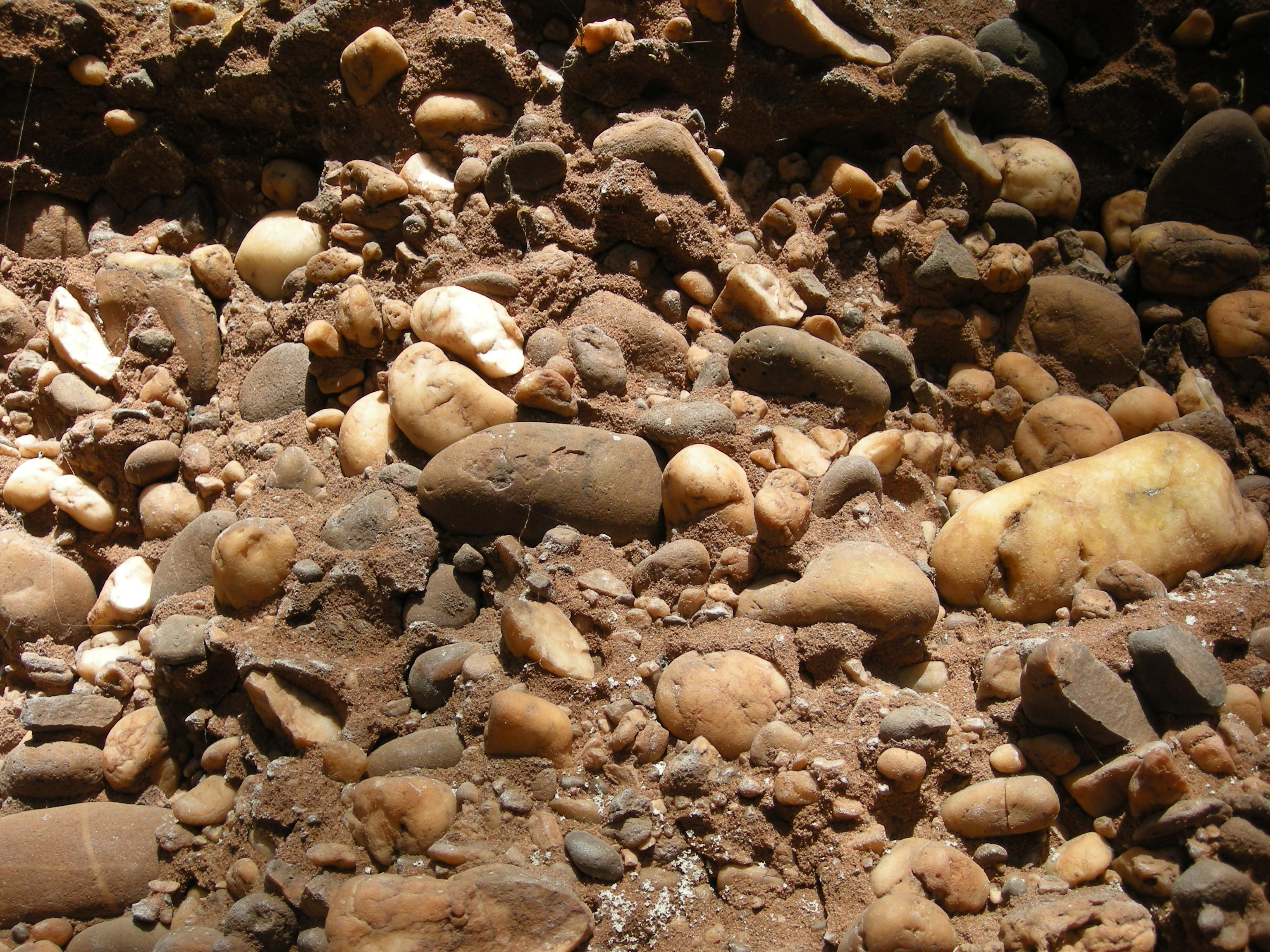 Puddingstone sandstone in Meurthe-et-Moselle, near Pierre-Percée